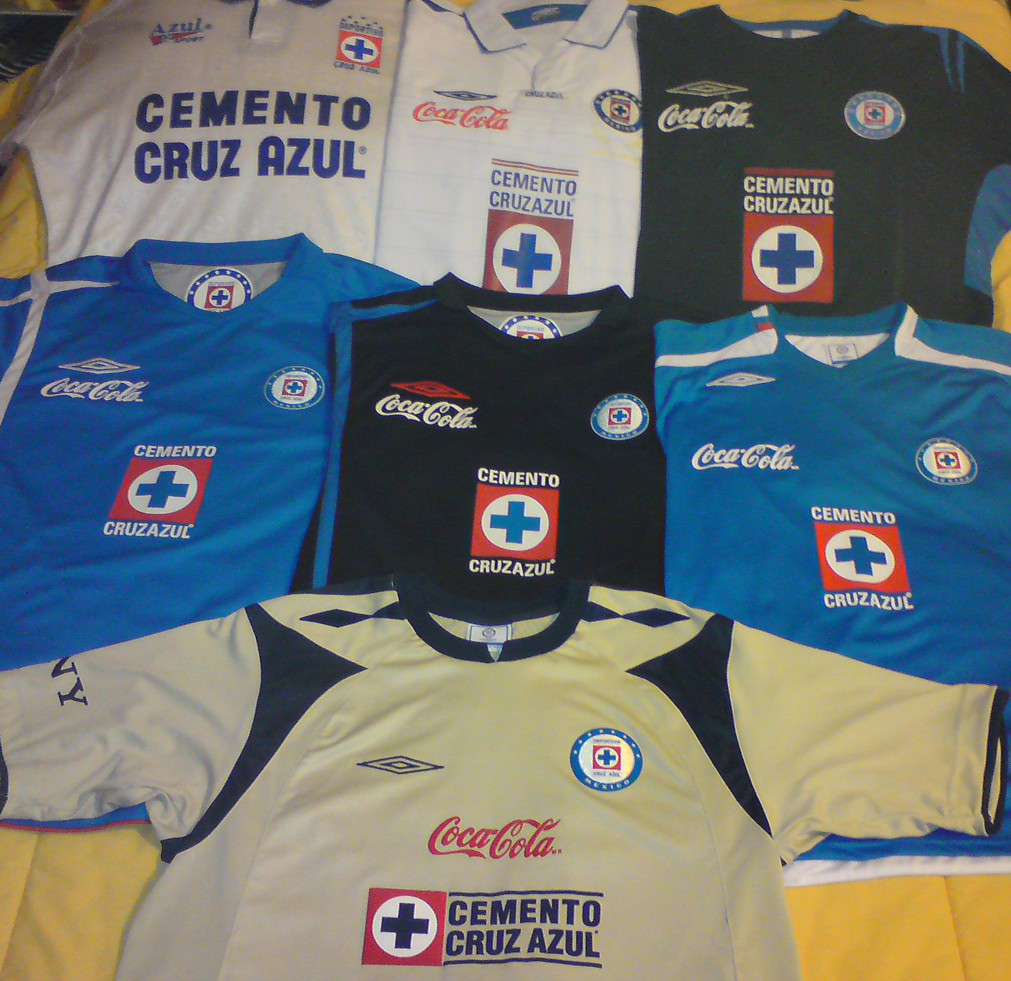 cruz_azul_away-97_away-04_3rd-05_home-07_3rd-06_home-08_3rd-08